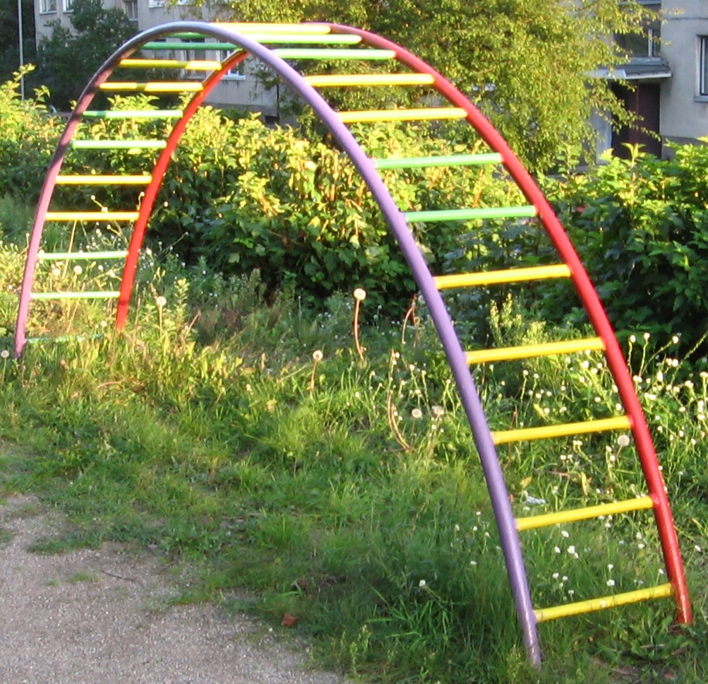 This Soviet playground construction is made of steel and resembles a bridge, although its exact name is not known to me. I have taken this photo in one of the former Soviet Republics. In that yard this playground construction was present at least for the last 20 years, although it was repainted relatively recently.